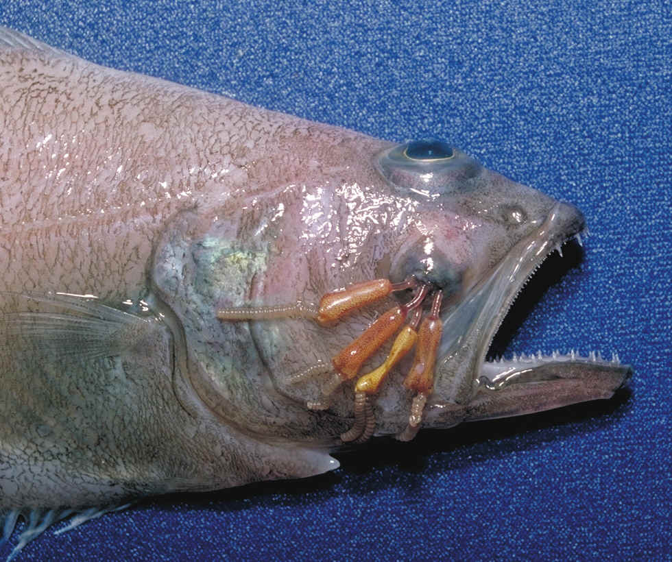 Arrowtooth flounder (Atheresthes stomias) with eye parasites.